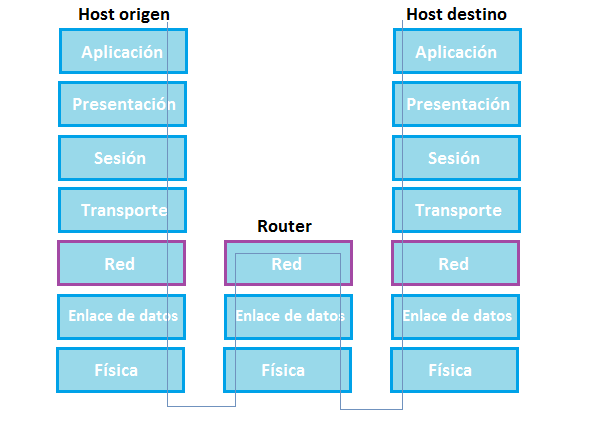 The image shows the connection between two host through a router in the OSI model.